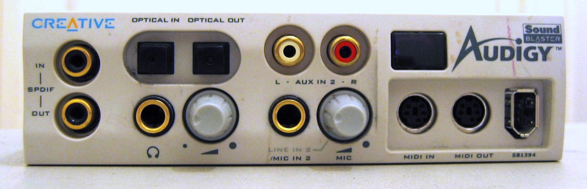 Photo of soundblaster audigy 1 live drive/breakout box.